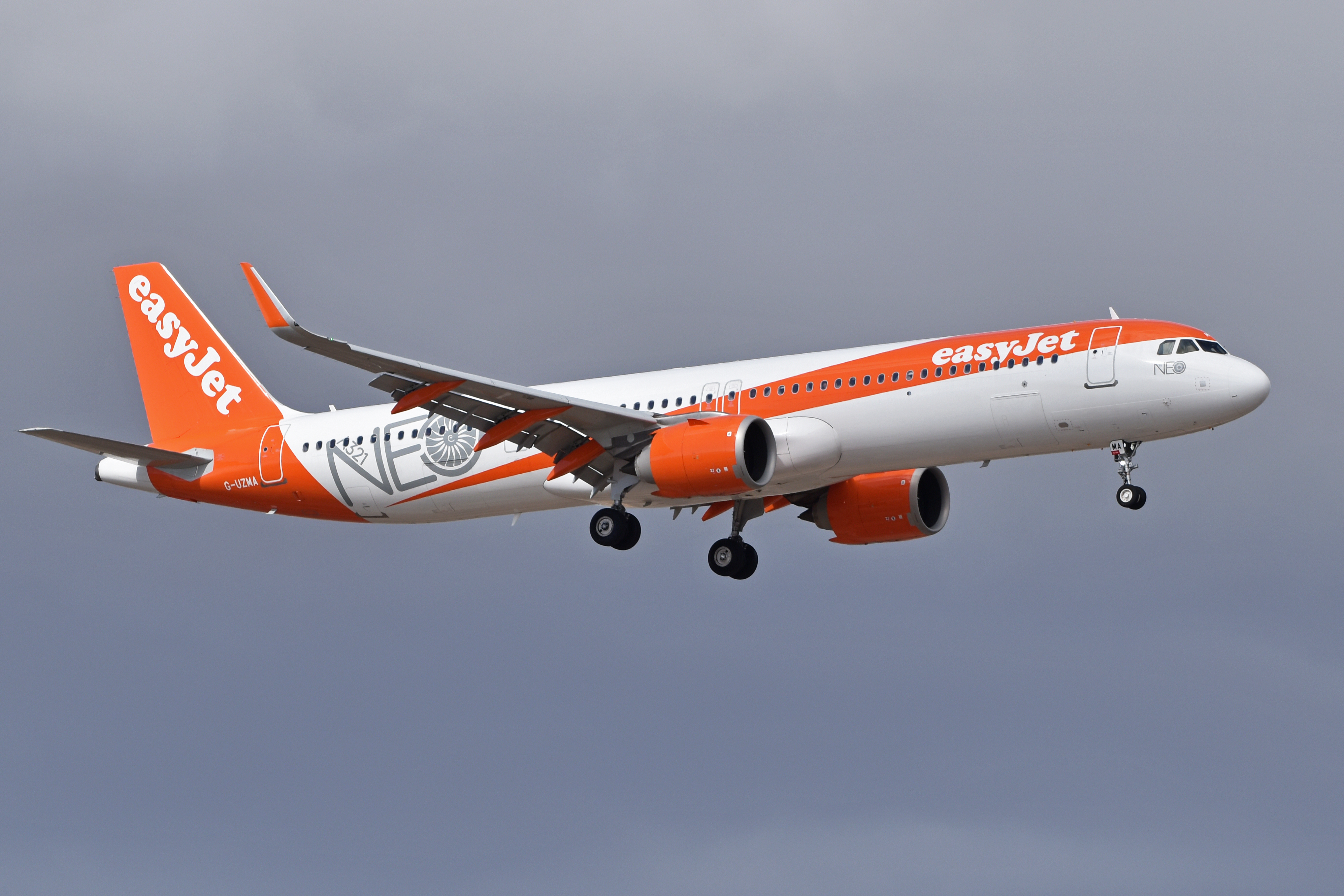 c/n 8314 Built 2018 Arriving on flight U28703 / EZY57DY from London Gatwick Tenerife South Airport, Granadilla de Abona, Tenerife, Canary Islands 18th January 2019